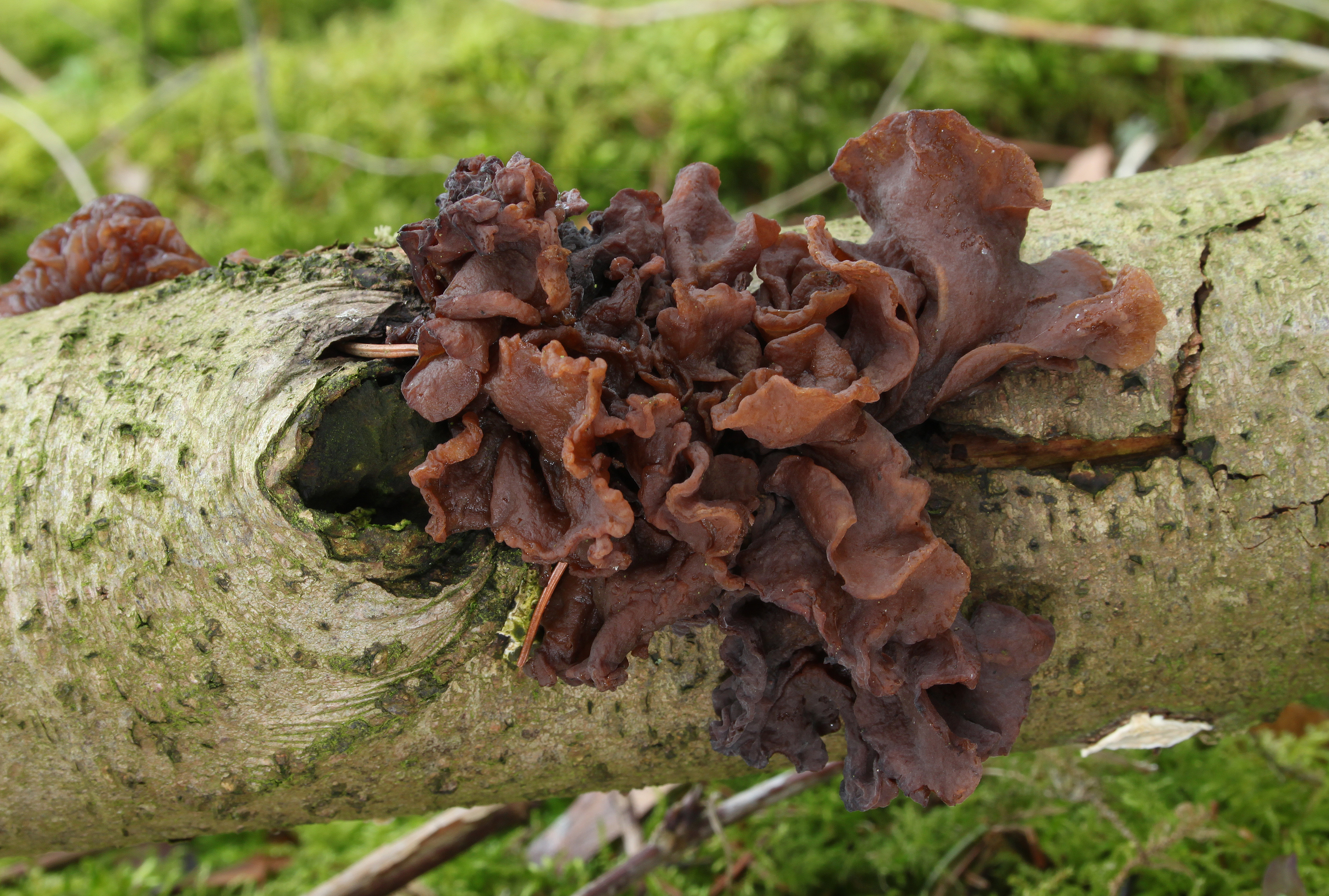 Leafy Brain, Jelly Leaf or Brown Witch's Butter, Tremella foliacea, Family: Tremellaceae, Location: Germany, Ulm, Eggingen